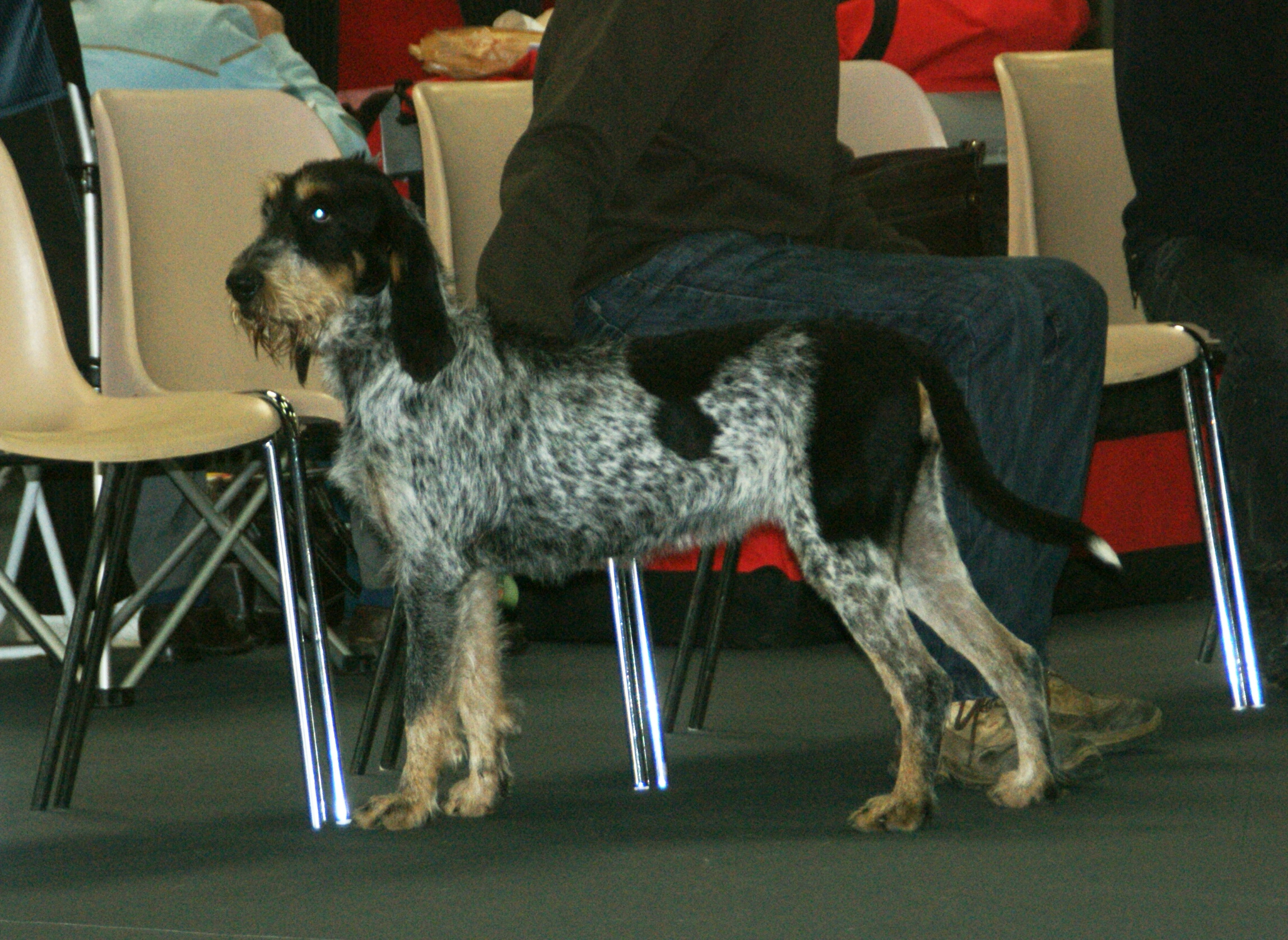 A Blue Gascony Griffon female